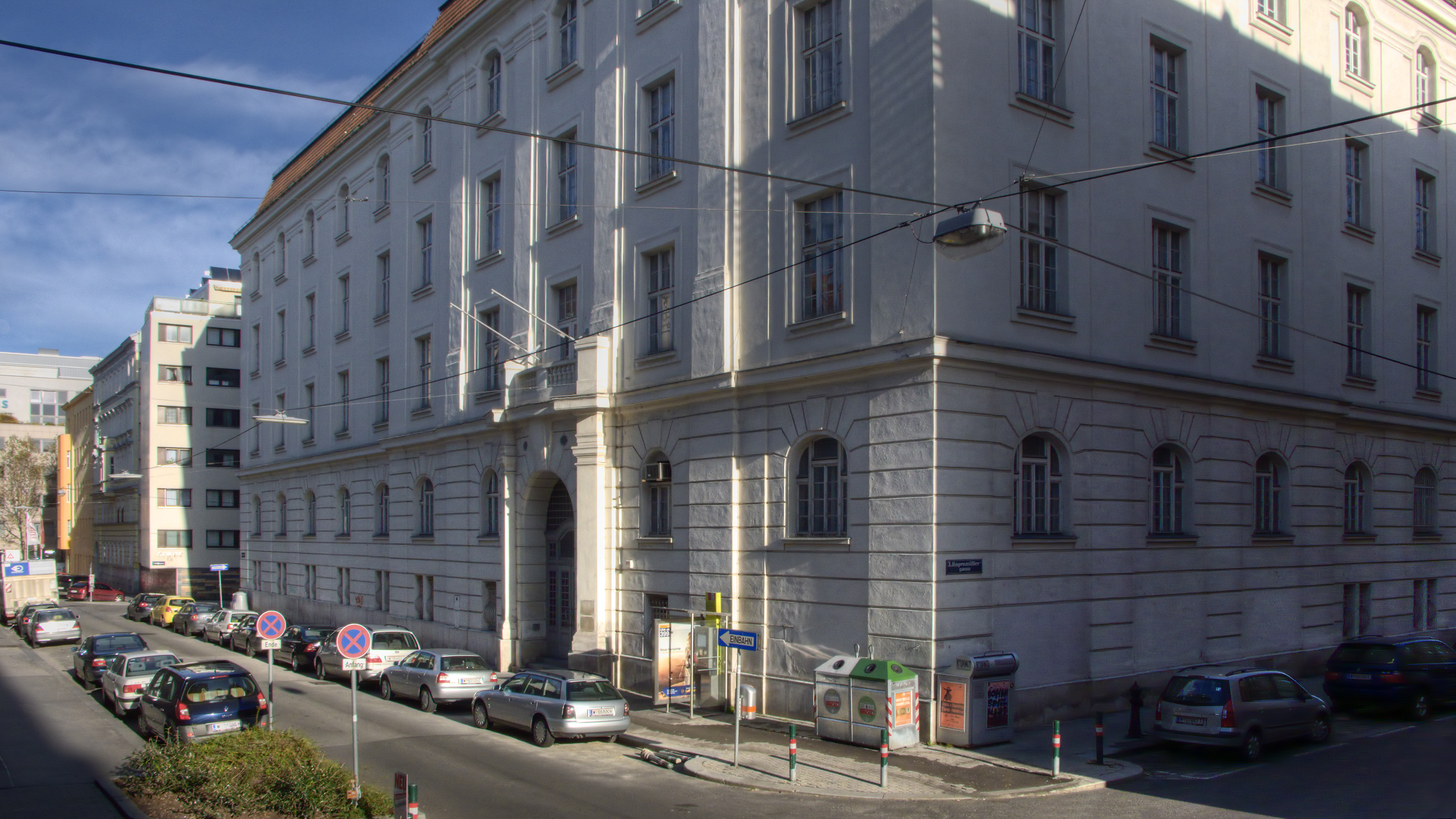 Former jail in Vienna, Erdberg, 3. district